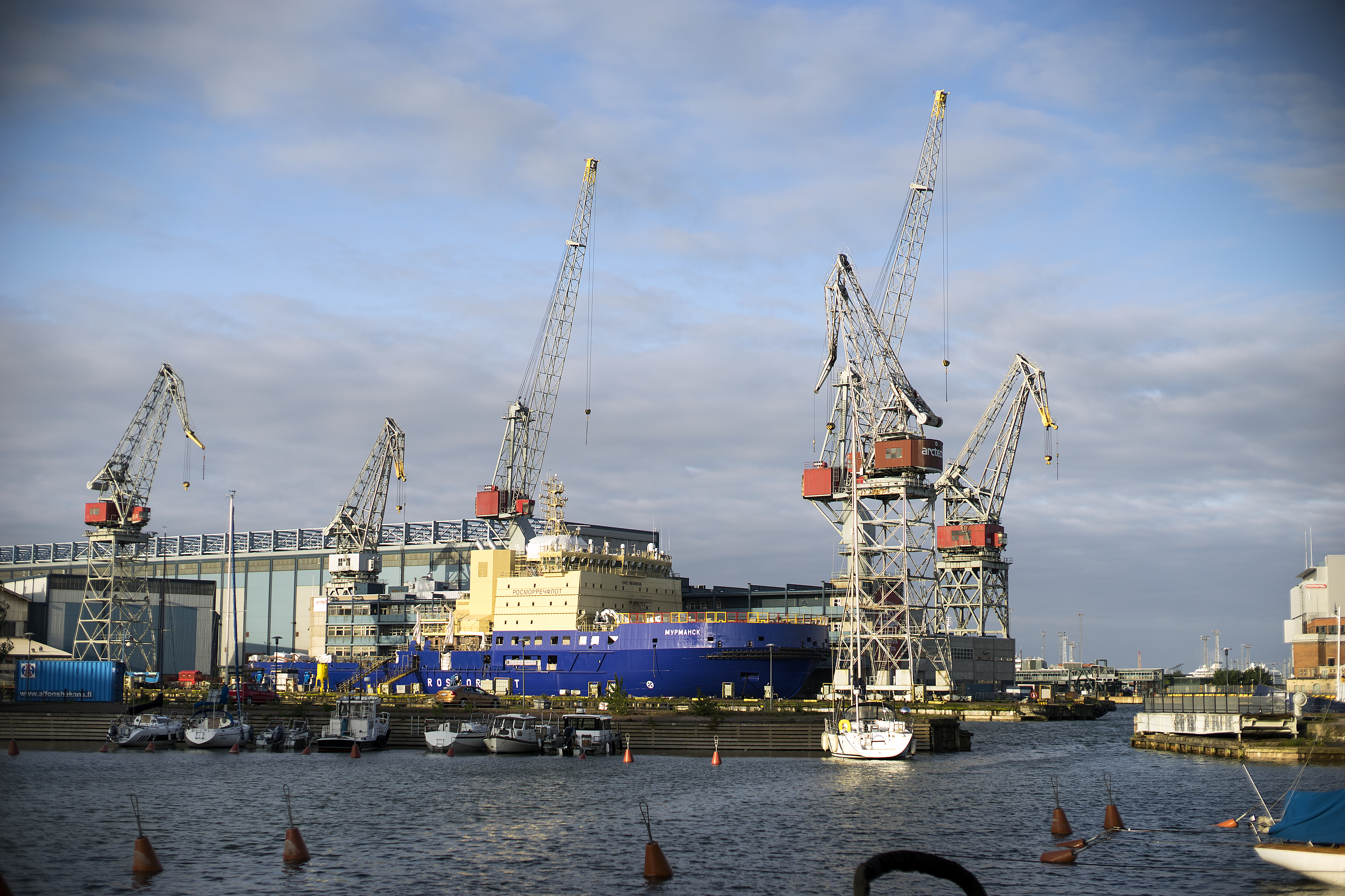 Helsinki to Tallinn Keep